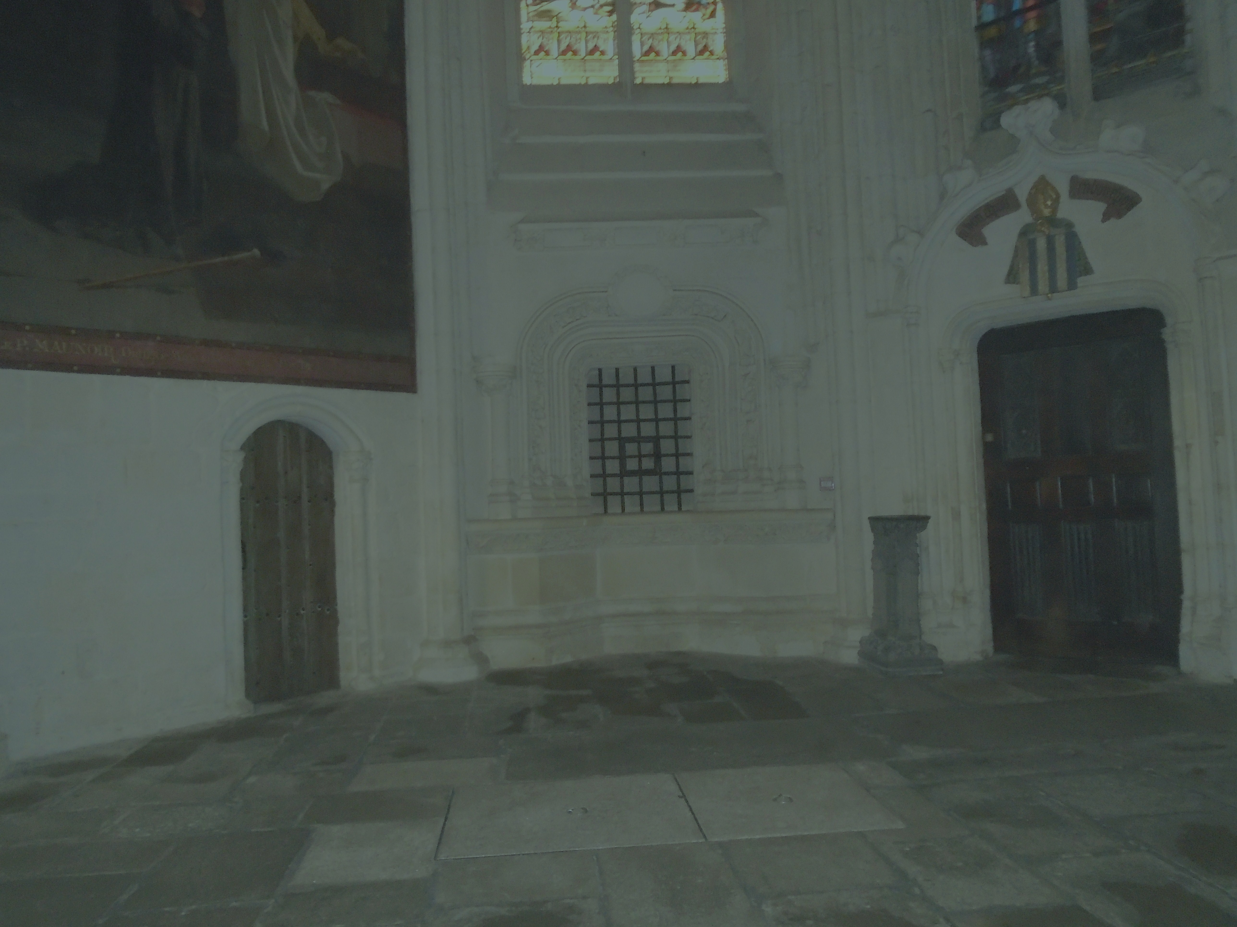 The sacristy door area of Quimper Cathedral. In the centre is a walled up window covered by a grill. To the right we see the sacristy door and above the door are the arms of Monseigneur Bertrand de Rosmadec with the motto "En Bon Espoir". To the left we see the bottom of Yann Dargent's painting showing the miracle where Father Julien Maunoir is given the gift of the Breton language. Above the grilled window is the window depicting Saints Guenole and Guenael.